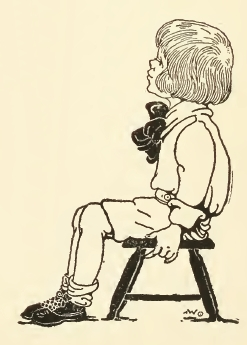 (Removed after reusableart request.)